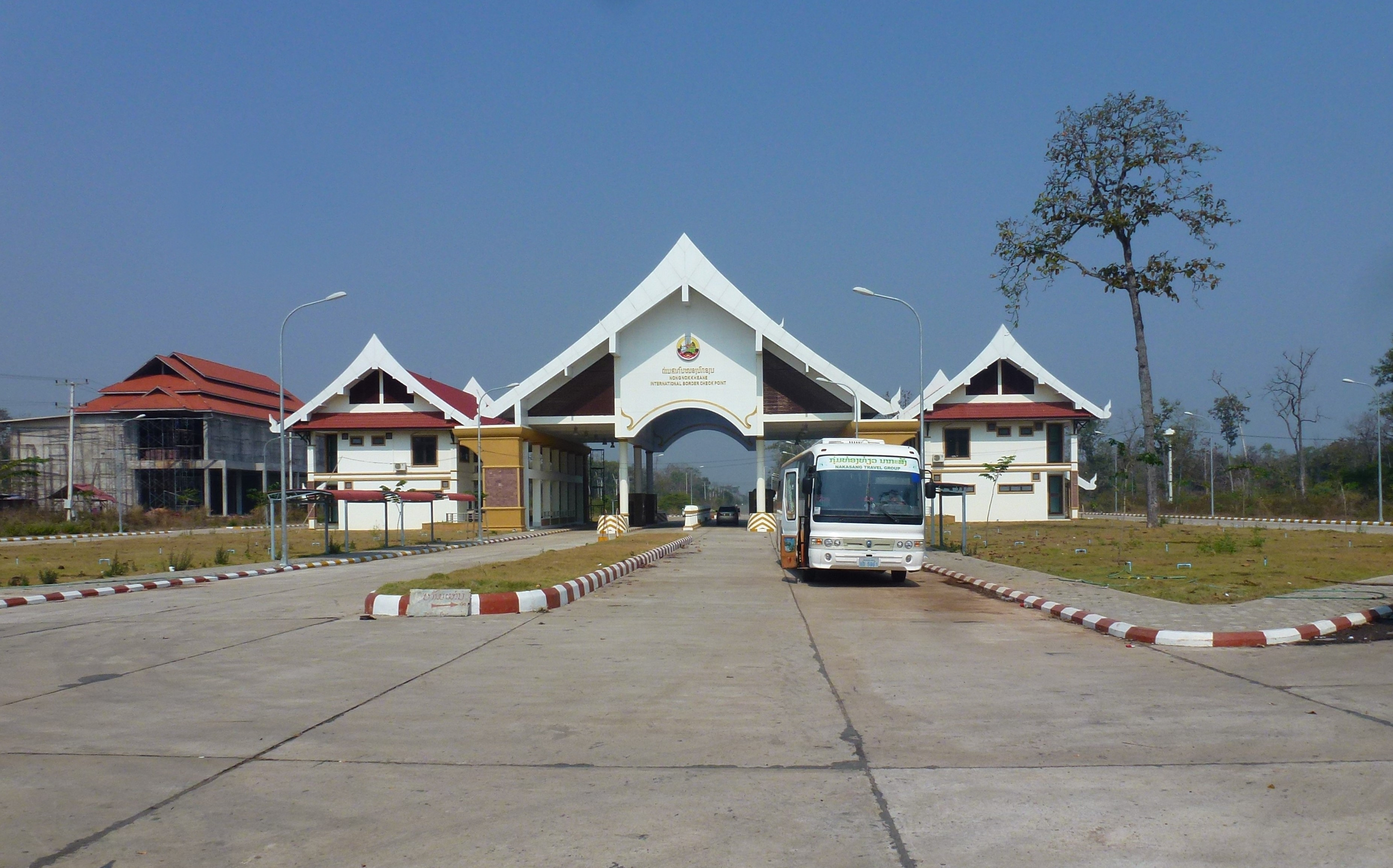 Stung Treng Border Crossing Station Laos-Cambodia